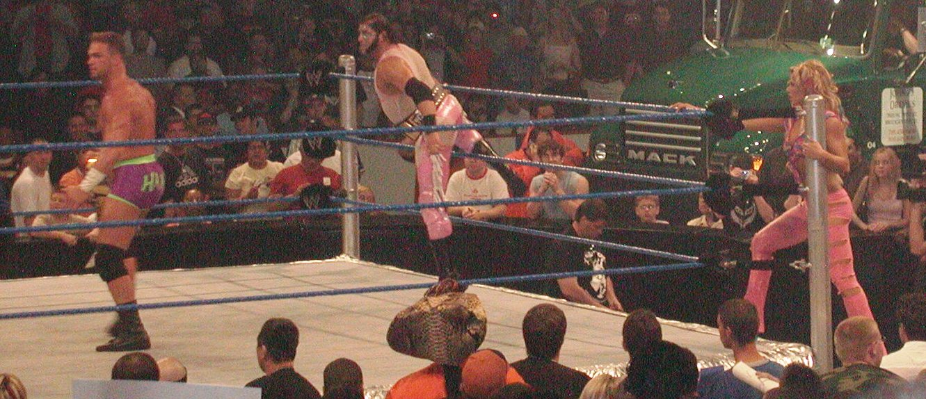 WWE Tag Team Champions Charlie Hass and Rico Constantino, along with Jackie Gayda, on WWE SmackDown!. Allstate Arena, June 152004. Cropped and brightened with Microsoft Office Picture Manager